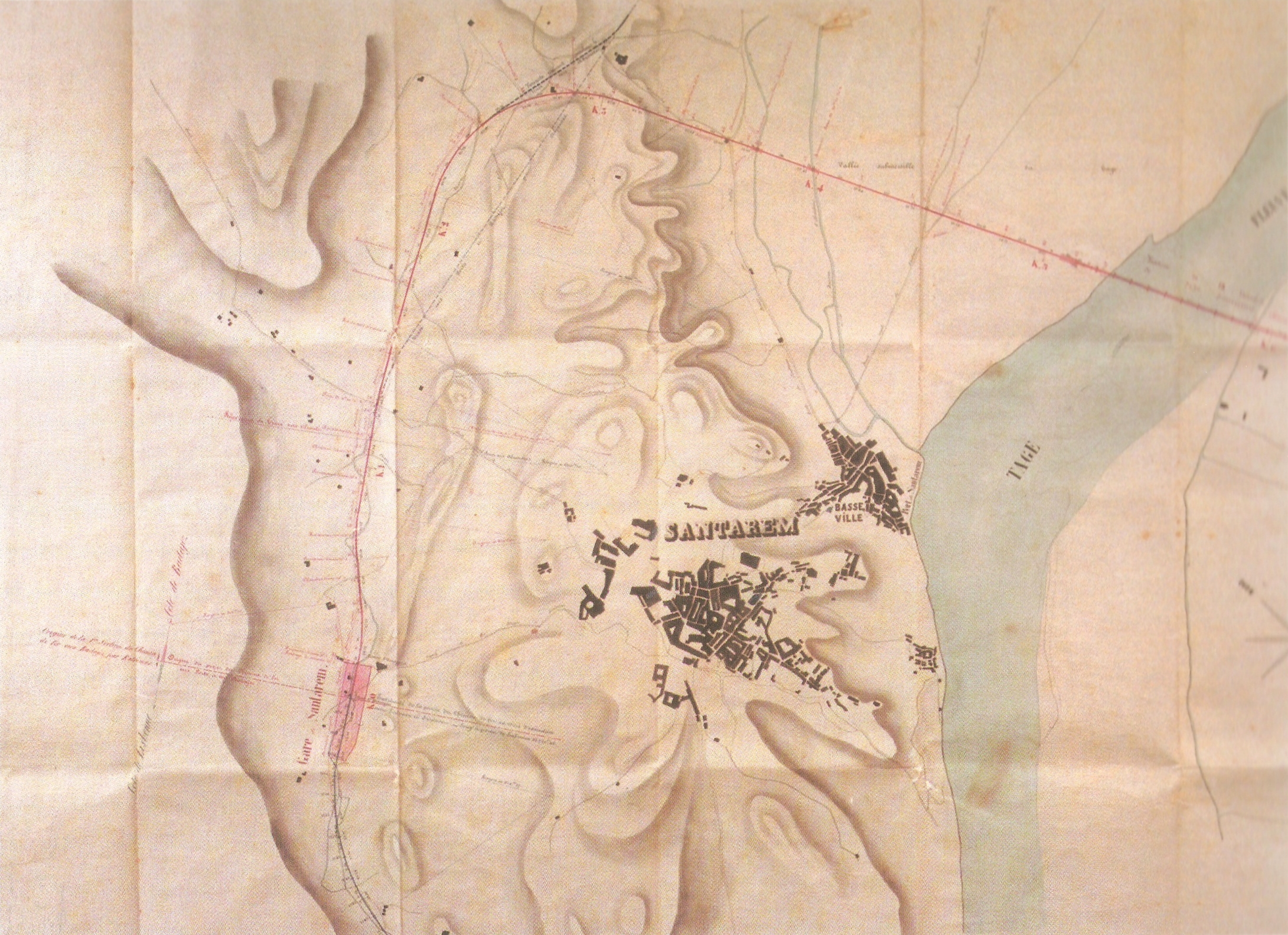 Plan with the various options for the route of the Eastern Railroad (later Northern Line), near Santarém, in Portugal.